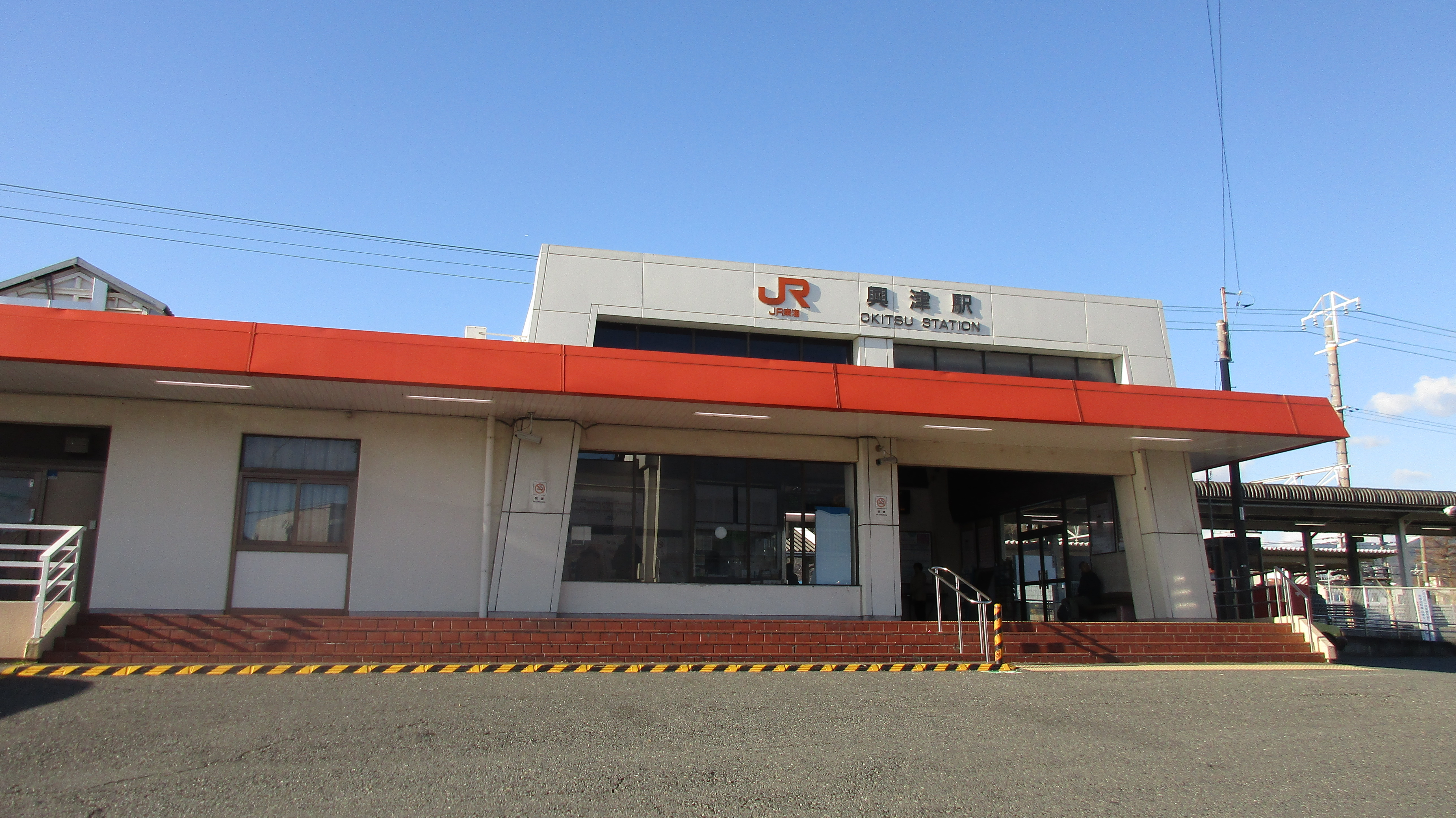 JR東海道本線 興津駅舎